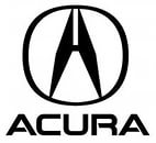 ACURA auto